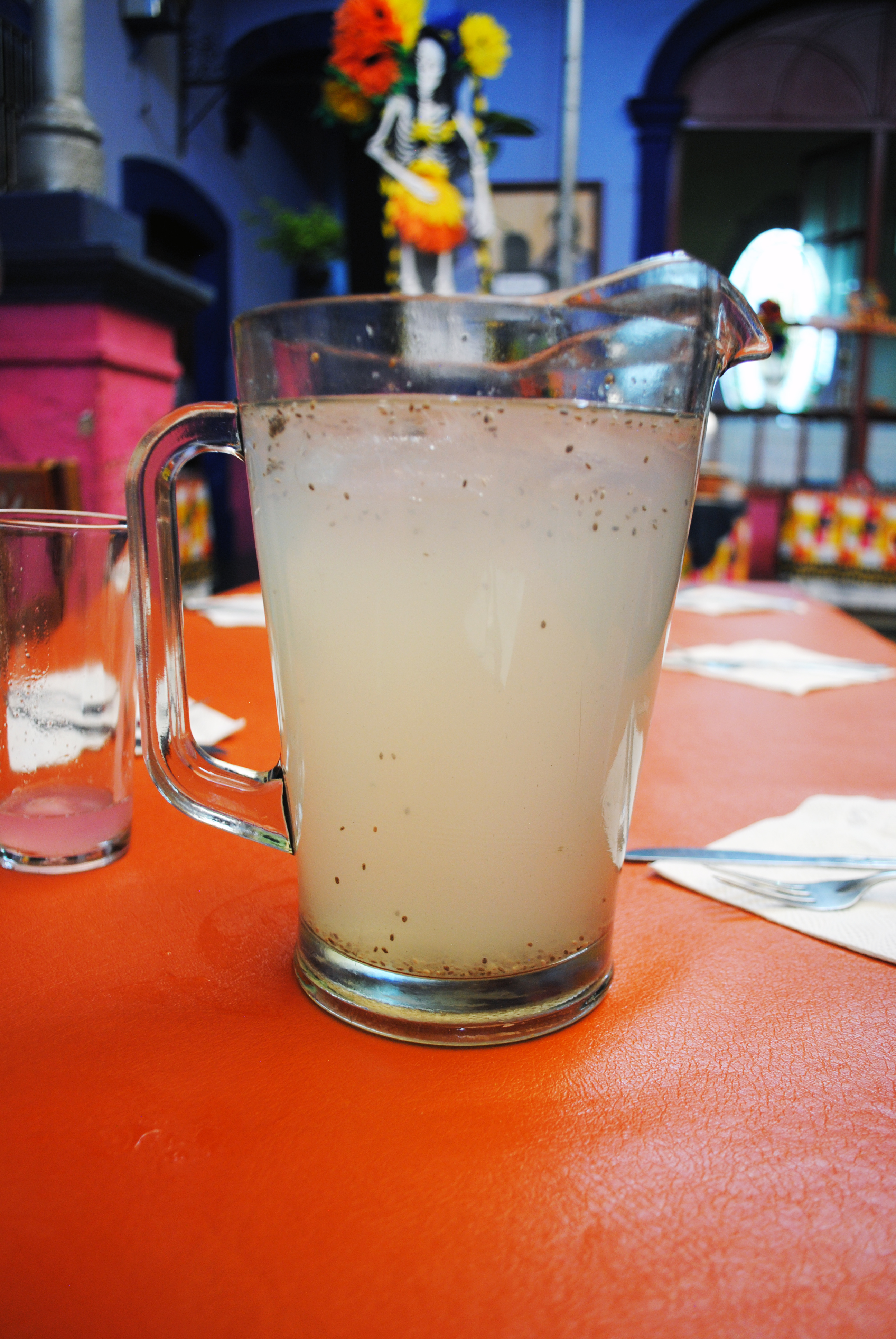 Made with chía seed (Salvia hispanica)